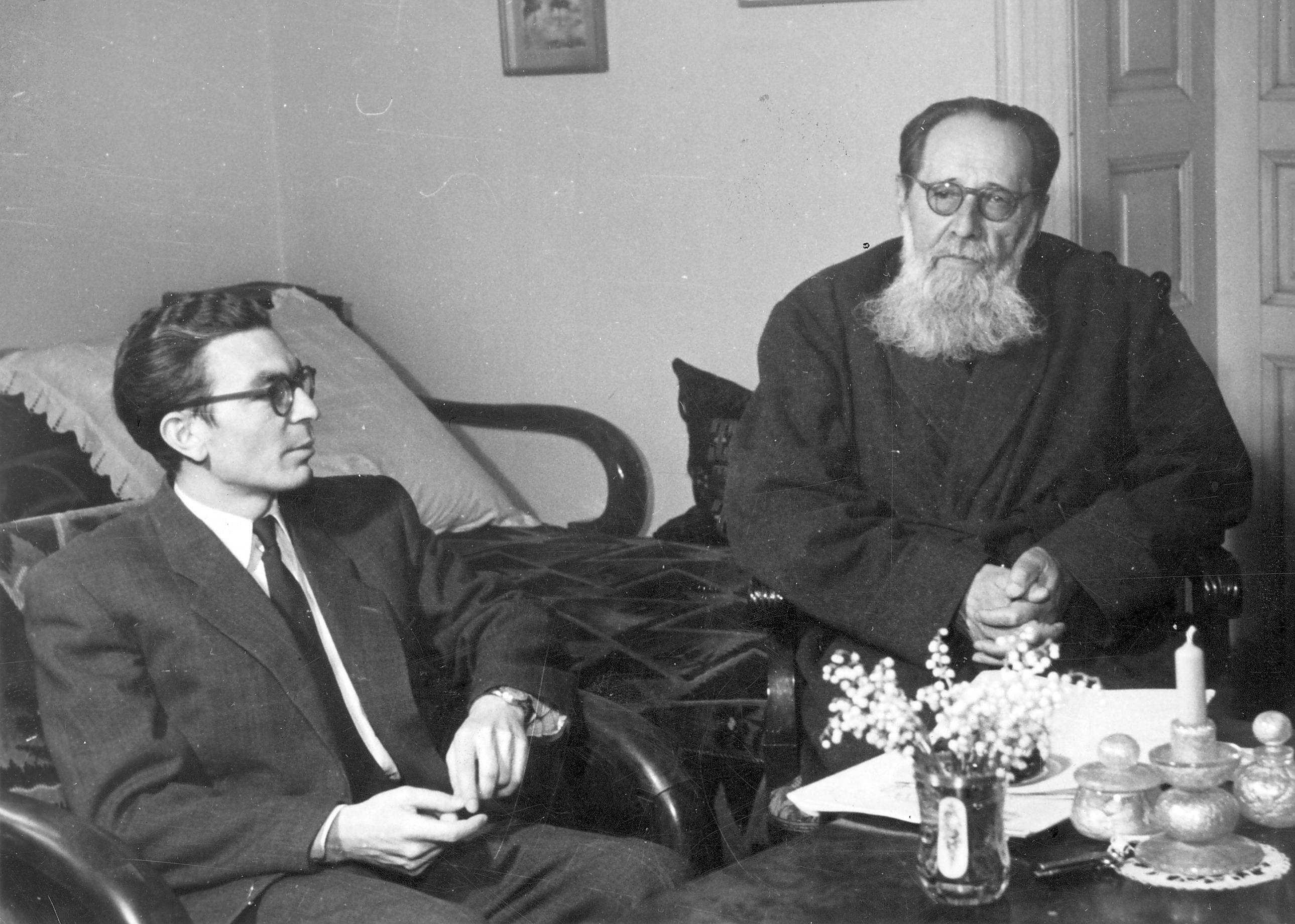 Romanian writers Mircea Zaciu and Ion Agârbiceanu